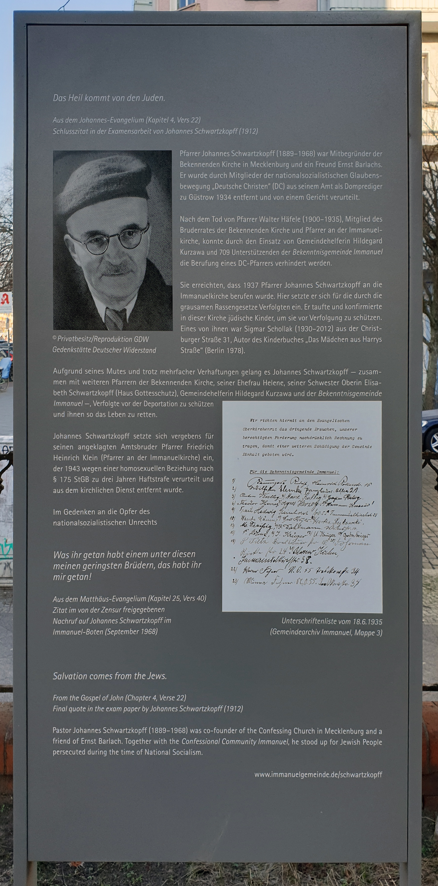 Memorial plaque, Johannes Schwartzkopff, Immanuelkirchstraße 1, Berlin-Prenzlauer Berg, Deutschland